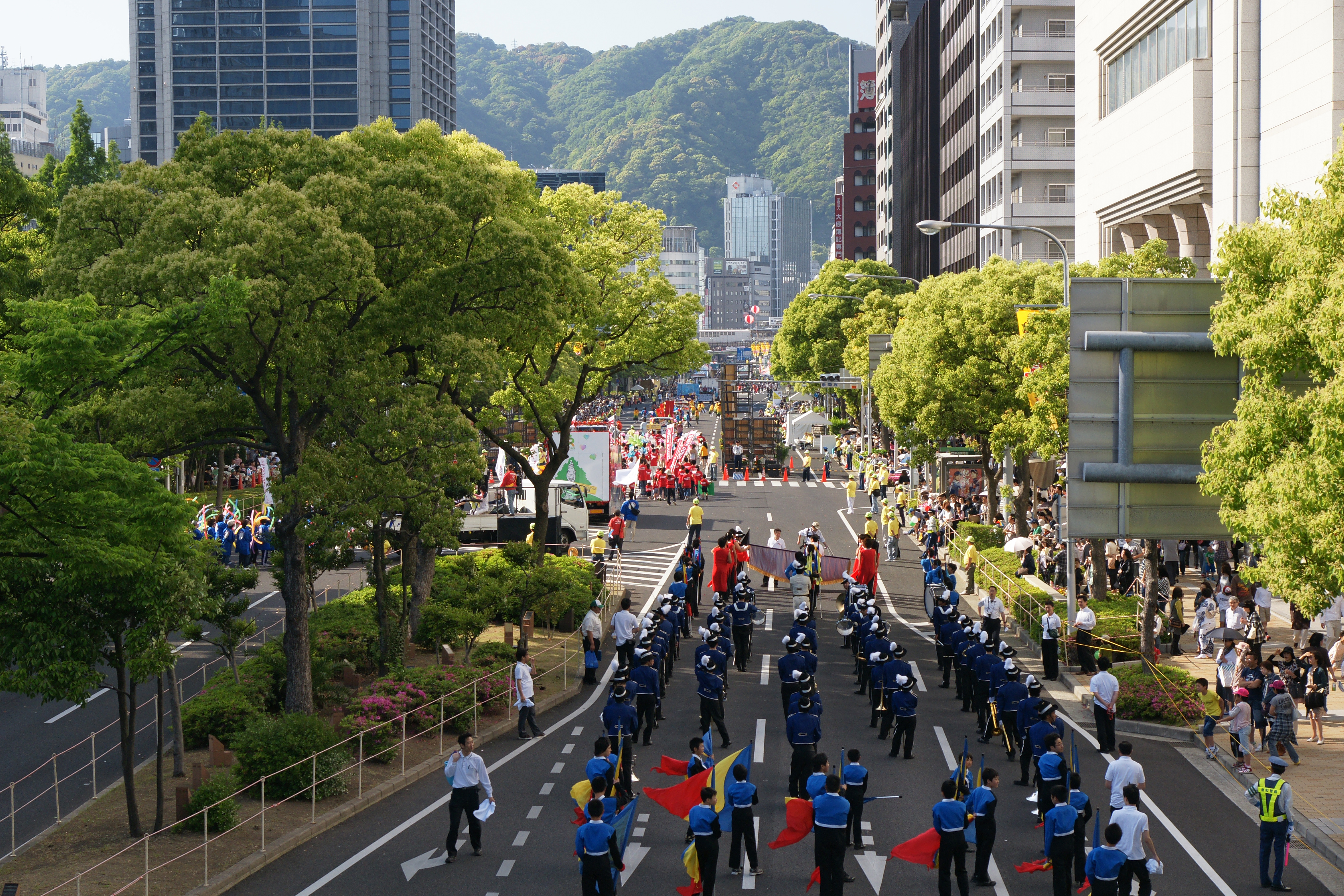 Kobe Matsuri at Kobe, Hyogo prefecture, Japan